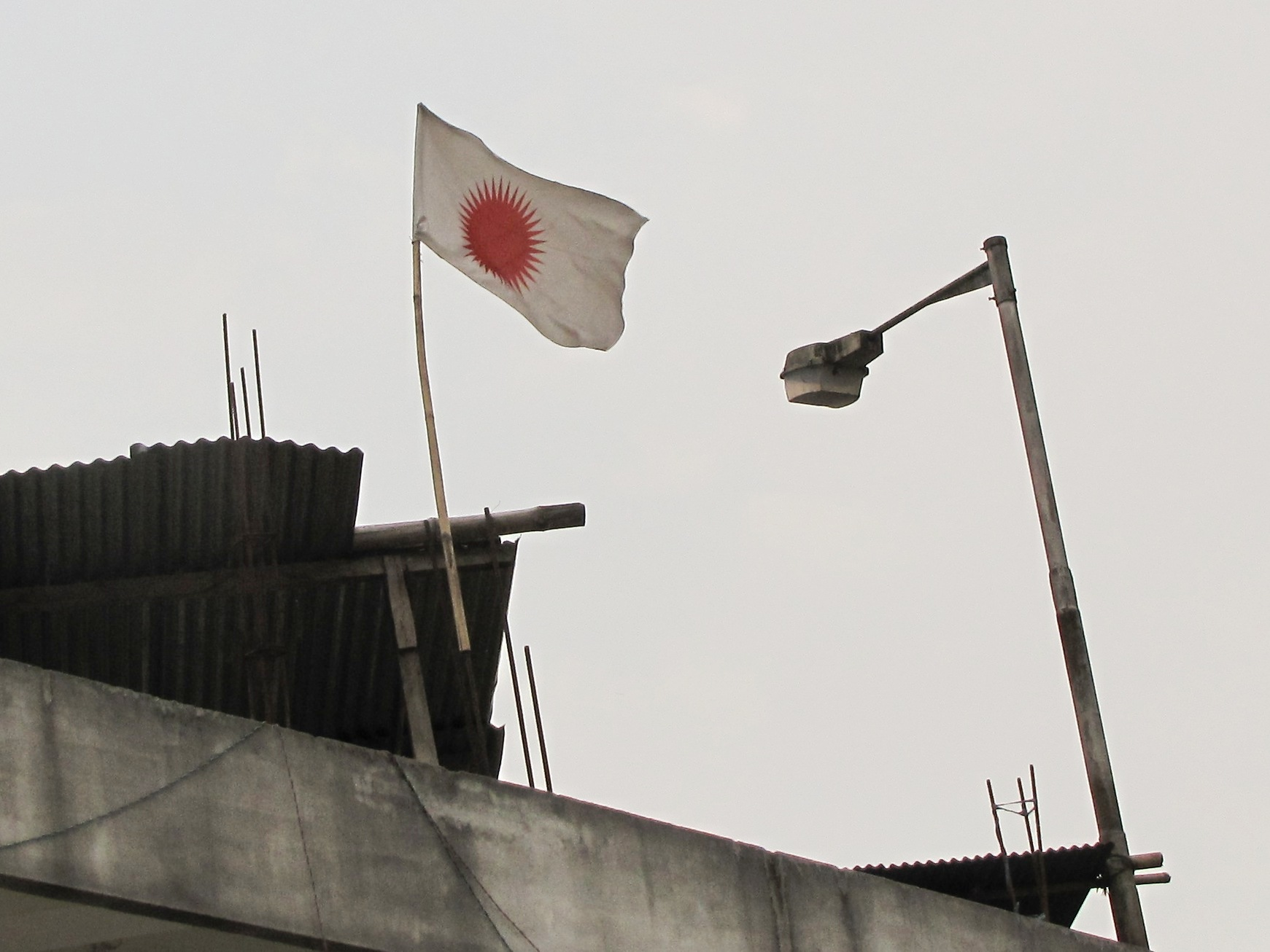 Donyi Polo flag. Seen over a house, indicates that it's inhabitants follow the religion. Photographed in Itanagar, Arunachal Pradesh, India.